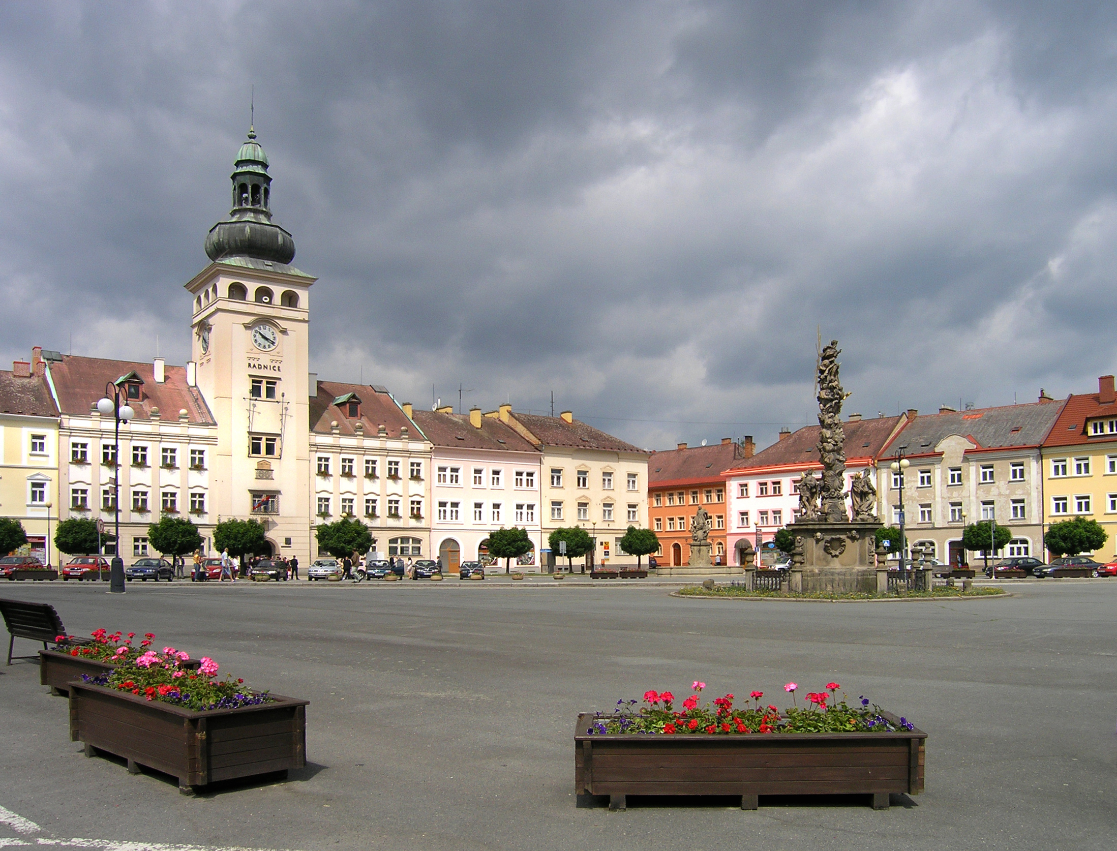 Komenský square in Fulnek, Czech Republic